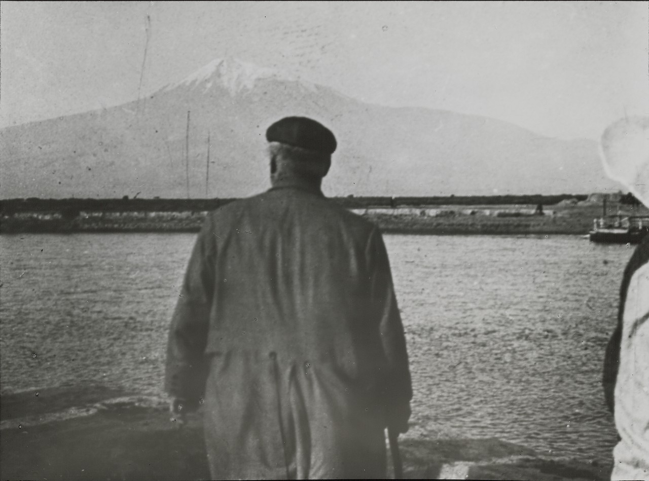 The Caucasian expedition of Conrad Keller, 1912